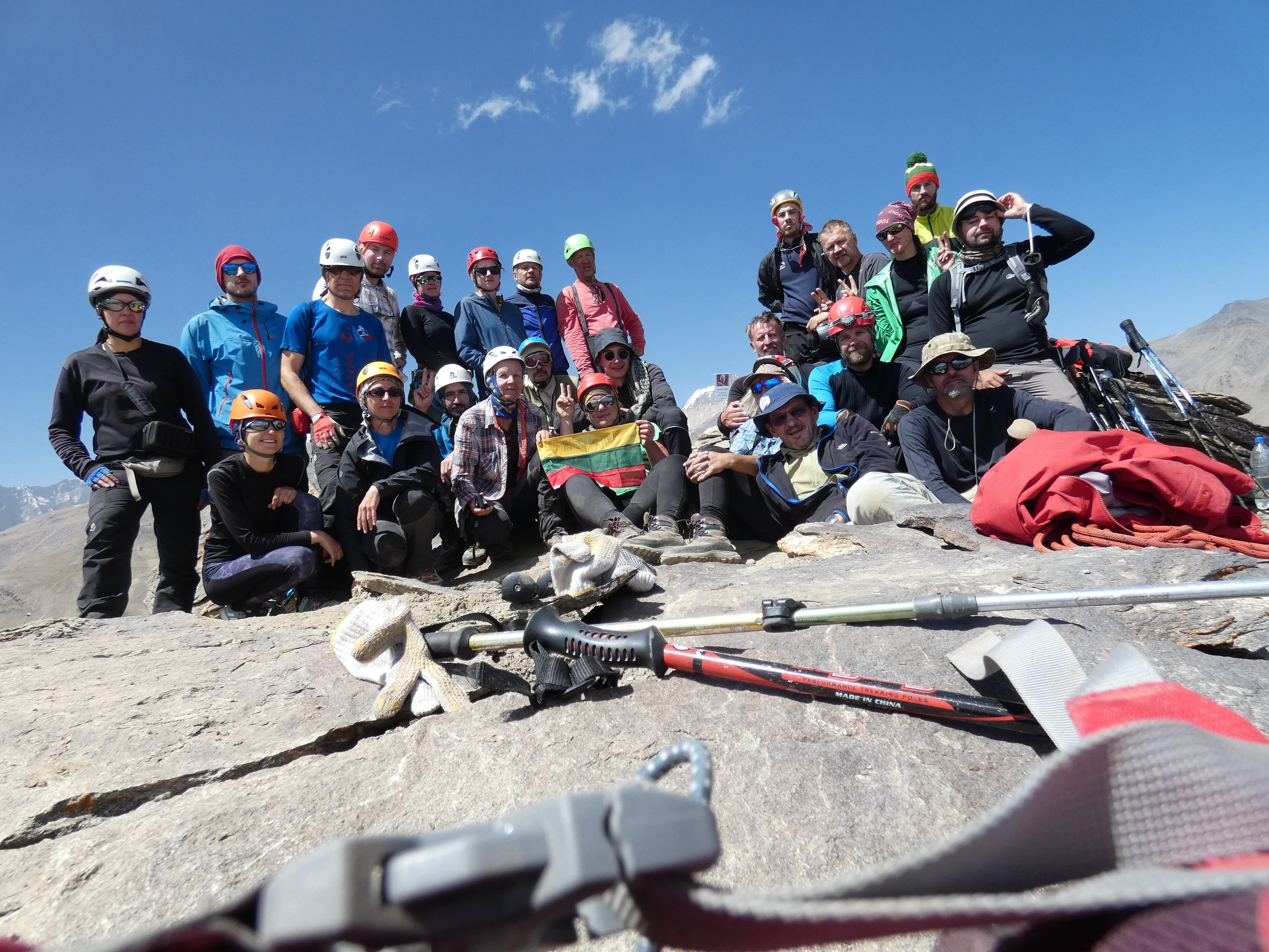 25 dalyviai įkopė į Vydūno viršūnę pirmo kopimo metu